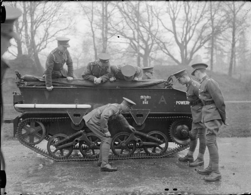 The British Army in the United Kingdom 1939-45 Dragon artillery tractor of 46th Field Battery, Royal Artillery, Pirbright, May 1940.